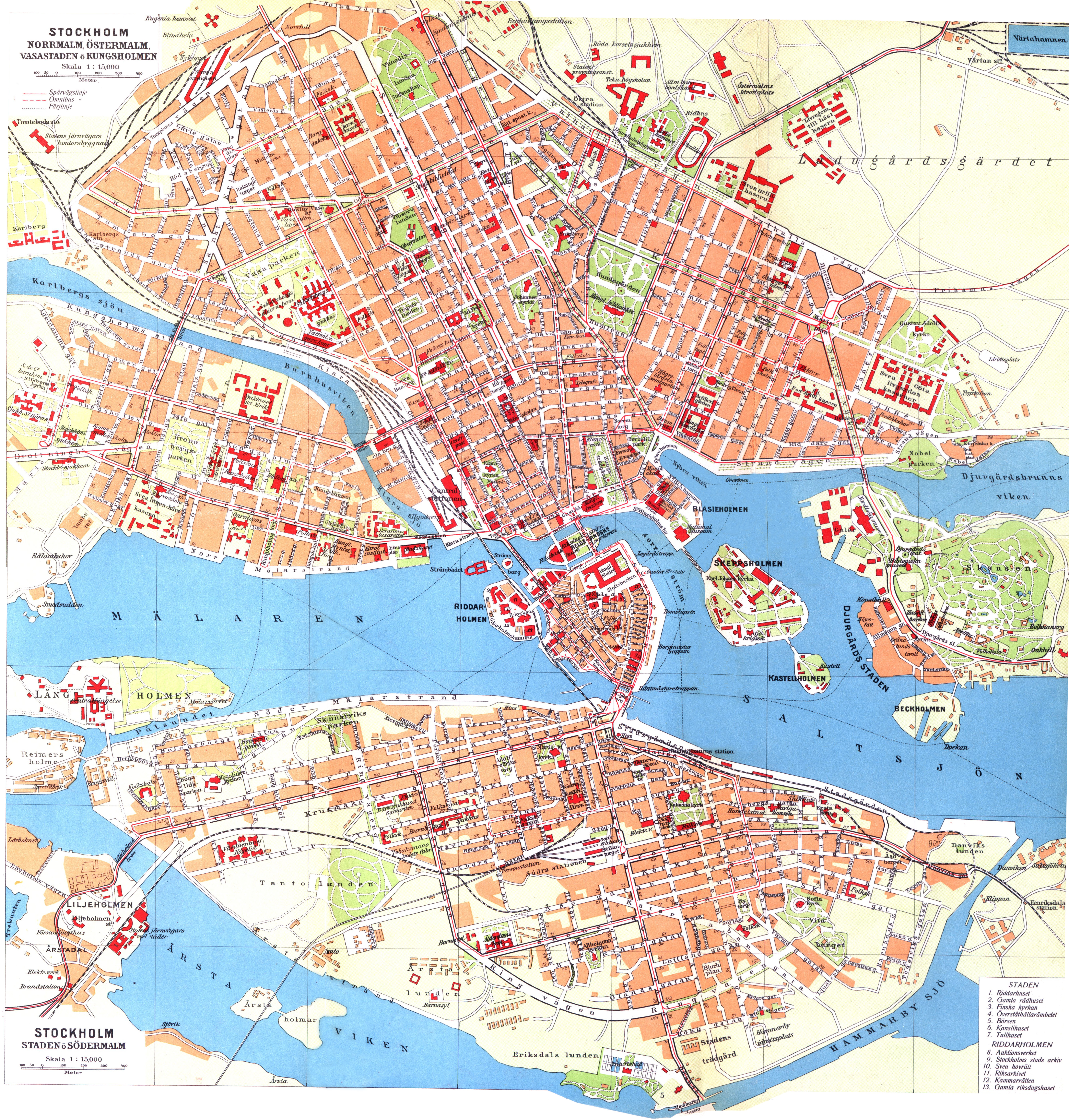 Map of northern Stockholm in Sweden.